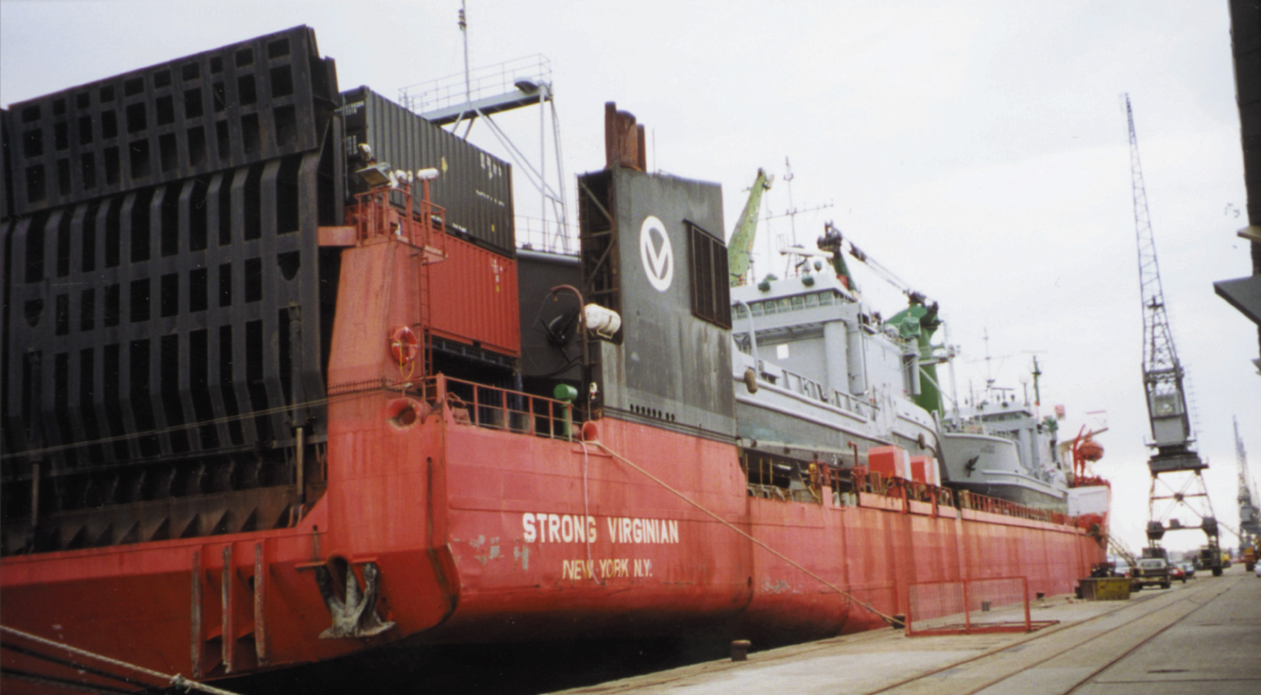 LCU 2000 being loaded as deck cargo on a chartered vessel.